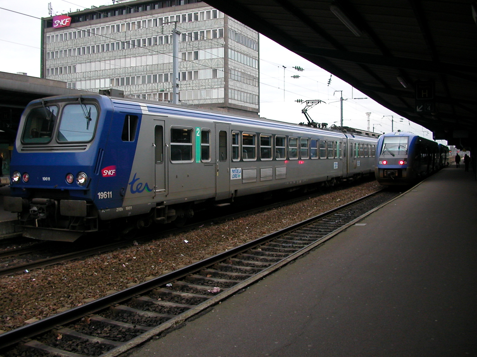 Regional trains (type Z2 and X73500) in Nantes' station